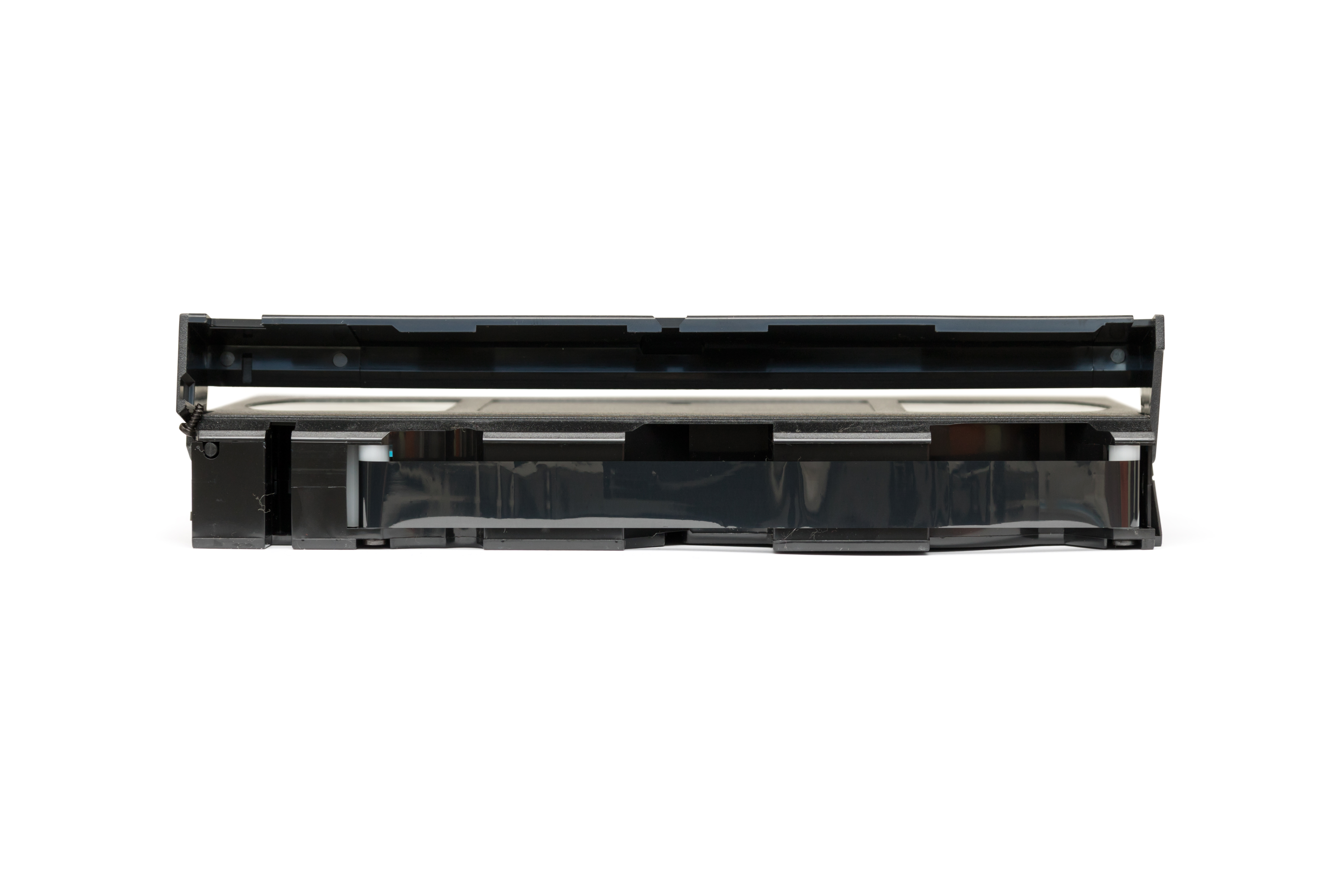 The top of VHS E-30 videocassette (PAL system). Visible magnetic tape